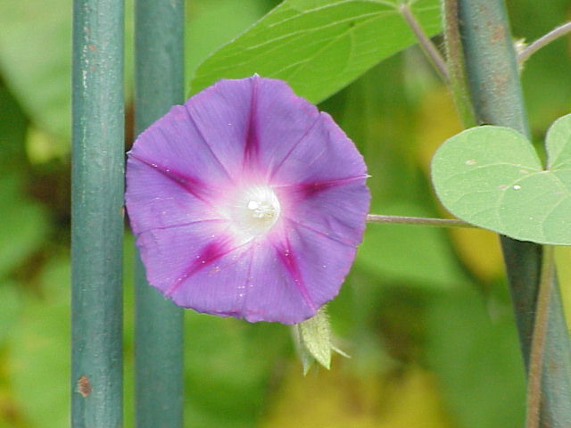 Species: Pharbitis purpurea Family: Convolvulaceae Image No. 4